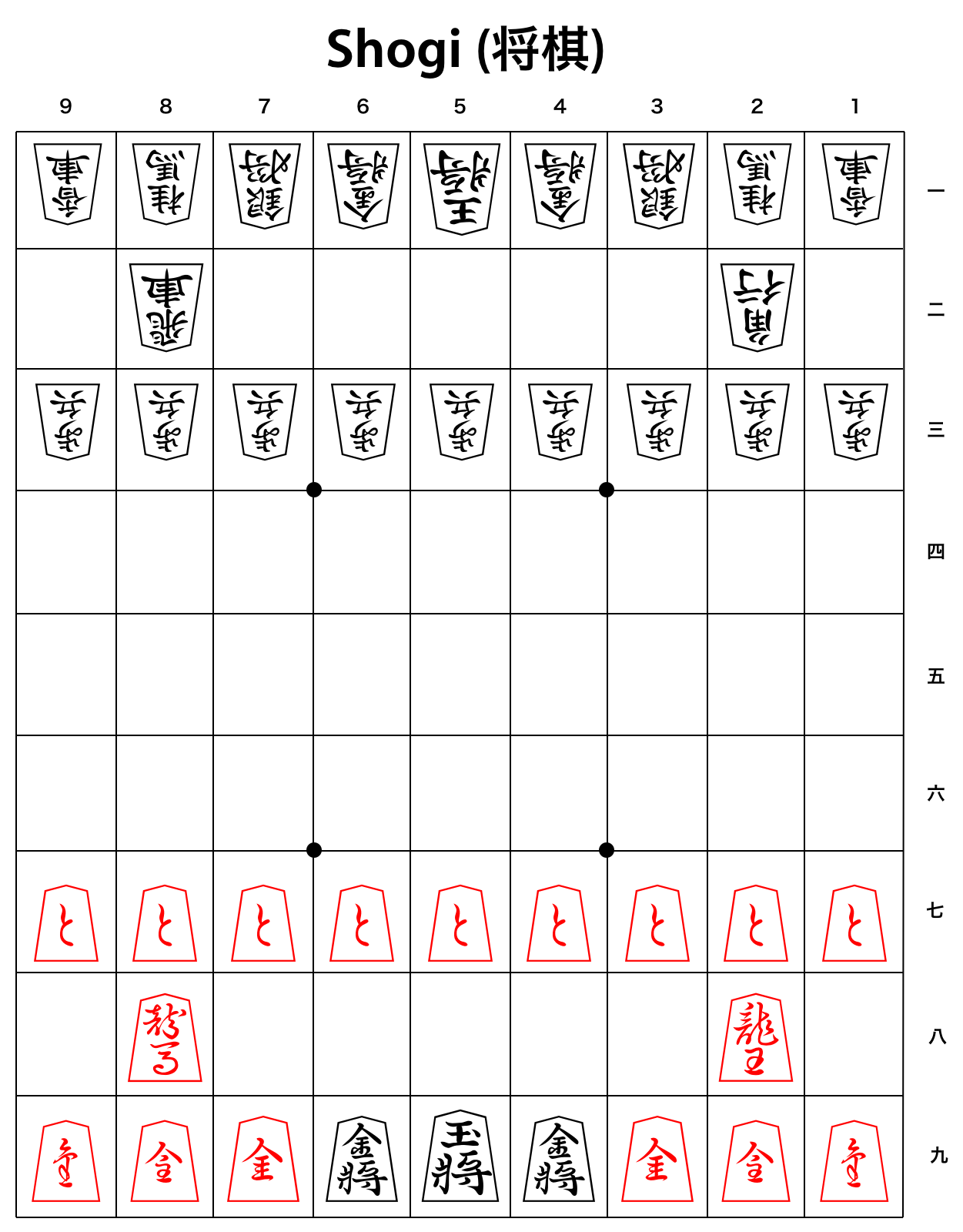 Made by me, Krun. For the pieces I used the Ohshou font.